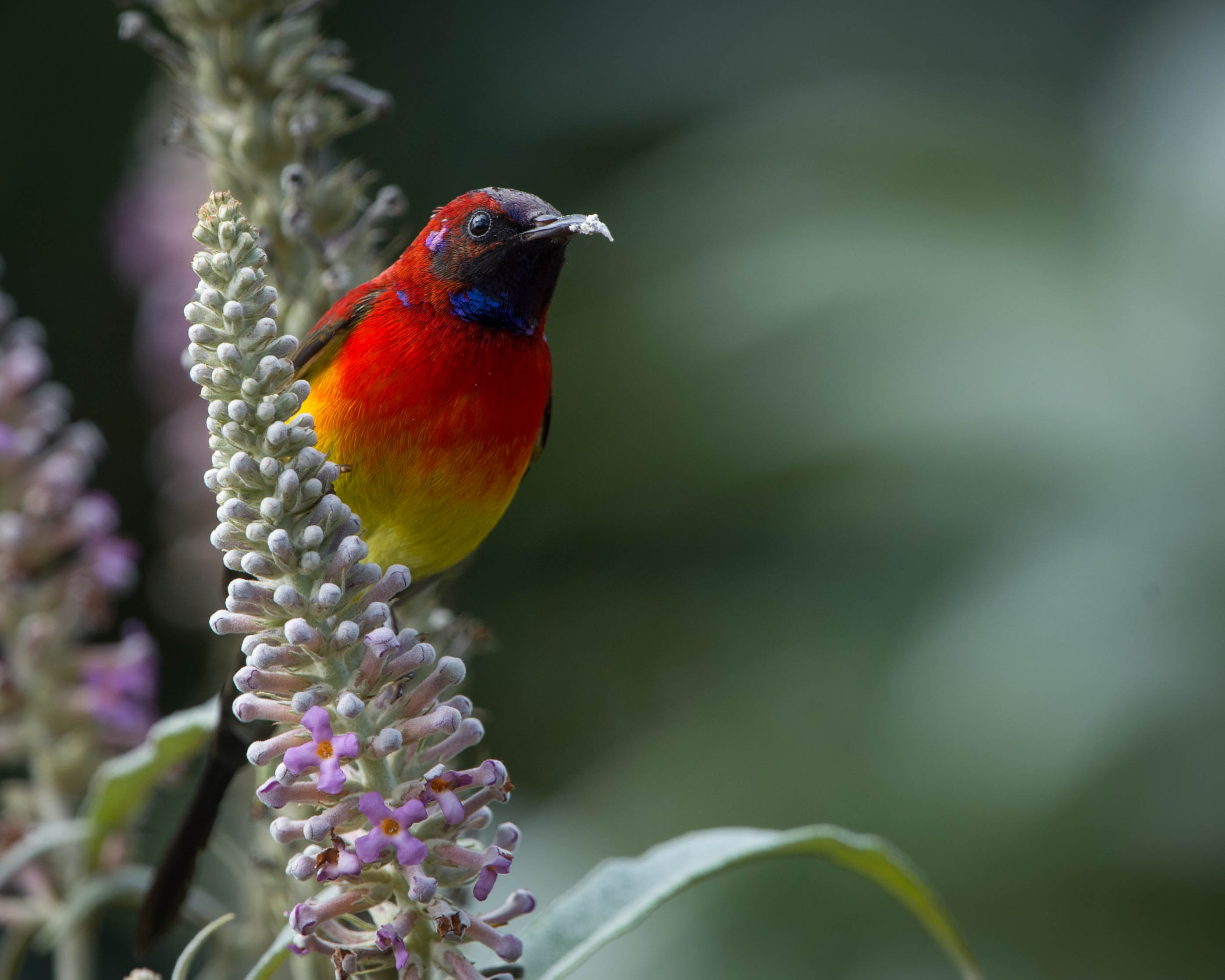 22 December 2013 - Doi Lang, Chiang Mai, Thailand